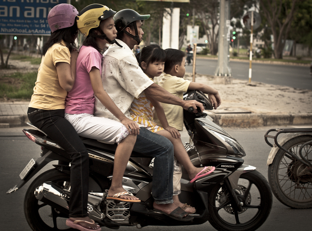 The thing was made for just two people, but this “can do” family in Ho Chi Minh City really likes togetherness. There’s nothing like riding around Vietnam’s largest city on a motorcycle, especially when you are only 3 feet tall and get to stand up front. Perhaps they’re on their way to buy two more helmets. Commonly know as Saigon, Ho Chi Minh City owes its wide boulevards and western-styled buildings to its years under French rule, which lasted from the mid-1800s to 1945. It then became the capitol of South Vietnam and had a good run as a capitalist, anti-communist state until April 30, 1975, when it fell to North Vietnam, thus ending the Vietnam War. Today, Saigon is an increasingly popular destination for tourists from around the world. Source: Michael Clemmer / Photo of the day